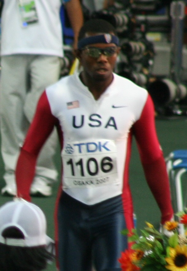 World Athletics Championships 2007 in Osaka - Disappointed 400 metres favourite Bershawn Jackson after being eliminated in the semifinal